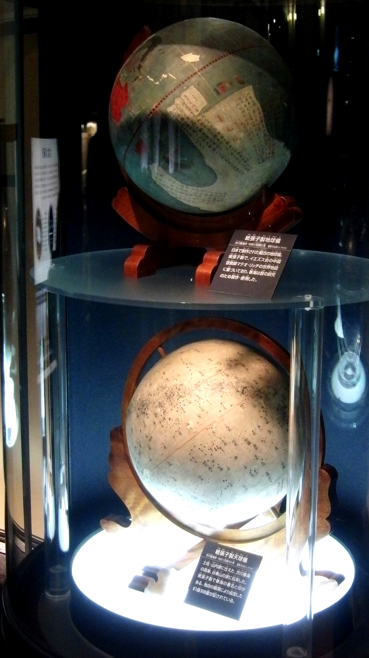 (Upper) Terrestrial Globe, created by Shibukawa Shunkai in 1695. (Lower) Celestial Globe, created by Shibukawa Shunkai in 1697. Both are Important Cultural Properties of Japan. Exhibition in the National Museum of Nature and Science, Tokyo, Japan.